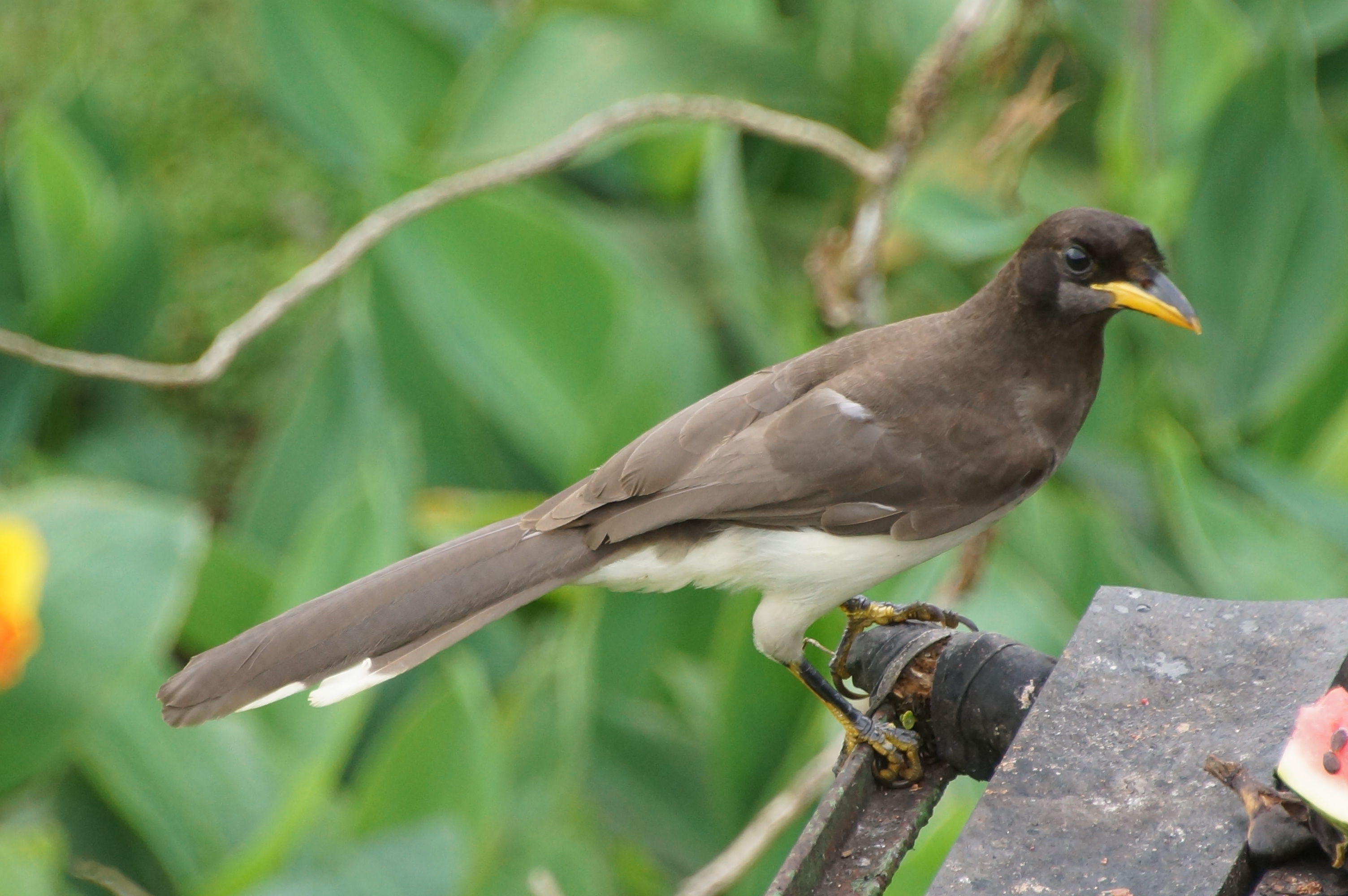 A sub-adult Brown Jay in Costa Rica.